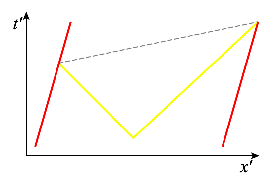 This is a spacetime diagram of the train-and-platform thought experiment. The red lines represent the front and back ends of a train, while the yellow lines represent the paths of two light rays. This version of the diagram shows the situation from the reference frame of an observer who sees the train moving.